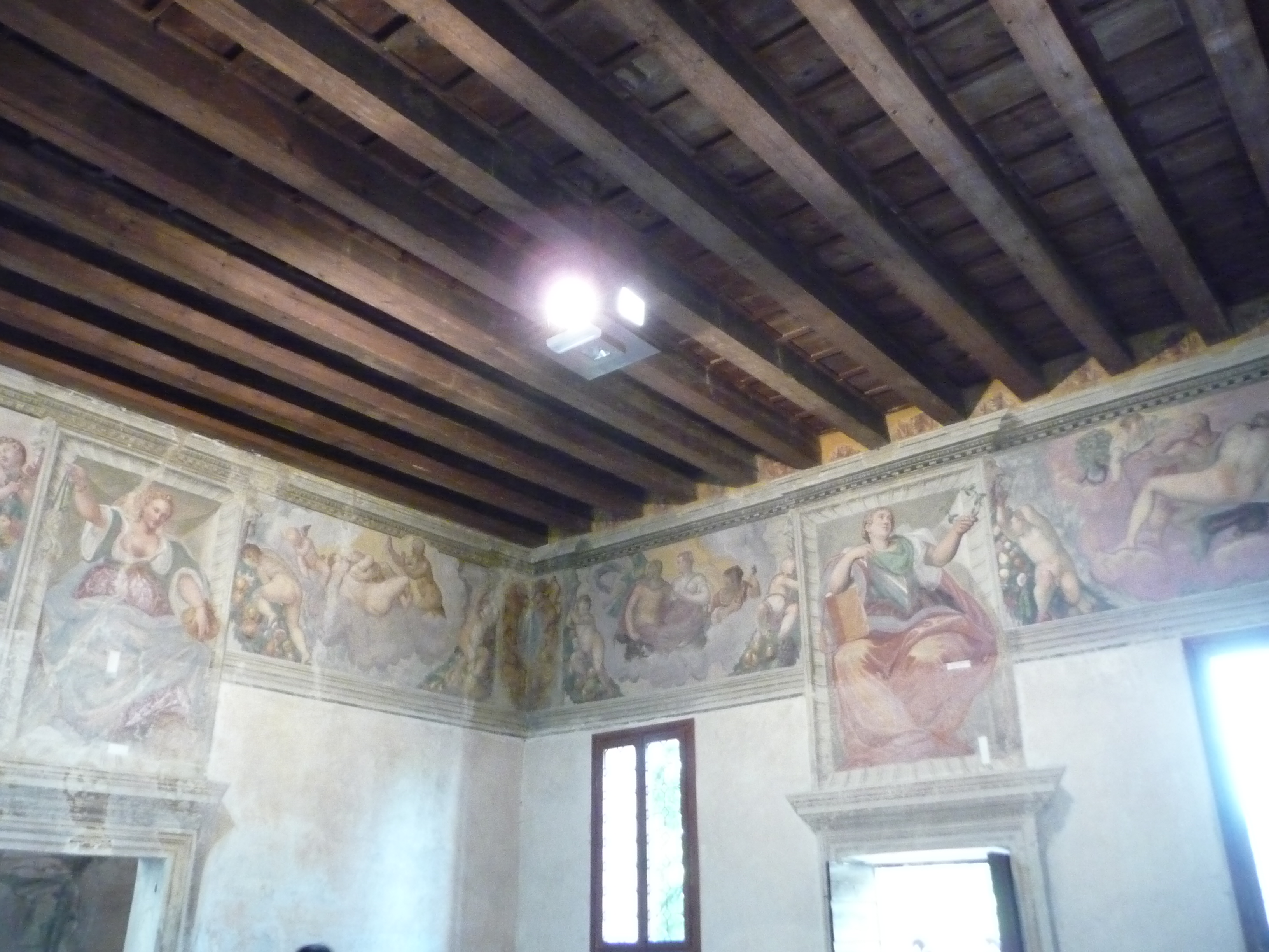 Villa Sesso Schiavo in Sandrigo, province of Vicenza.